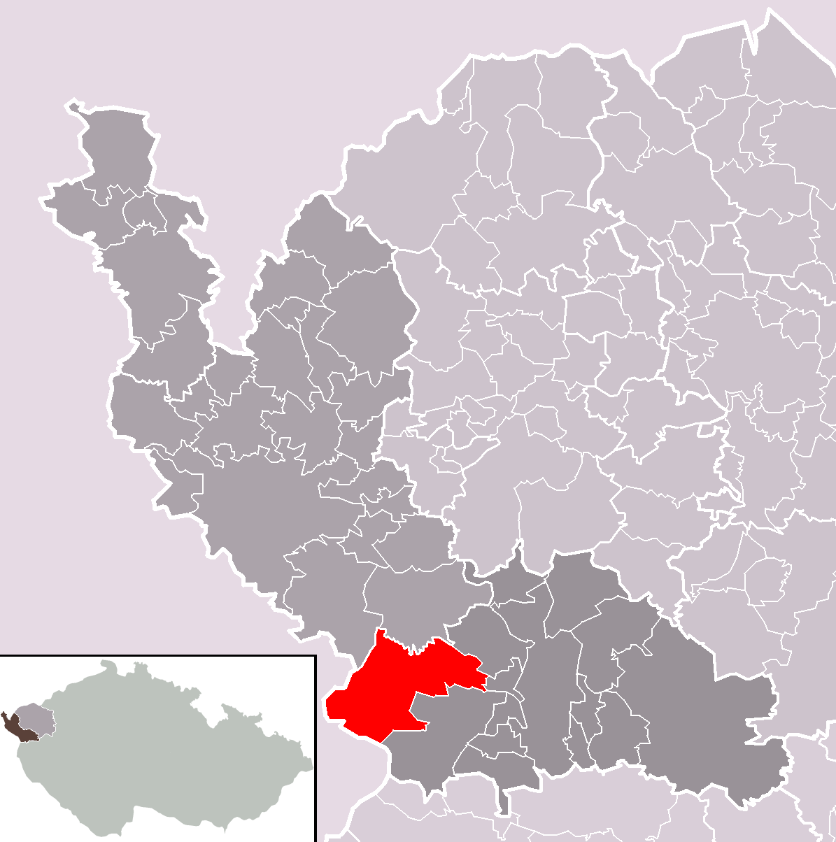 Location of Stará Voda municipality within Cheb District and administrative area of Mariánské Lázně as a Municipality with Extended Competence.